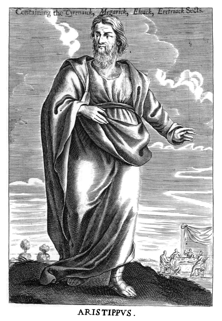 Aristippus of Cyrene, ancient Greek philosopher. From Thomas Stanley, (1655), The history of philosophy: containing the lives, opinions, actions and Discourses of the Philosophers of every Sect, illustrated with effigies of divers of them.